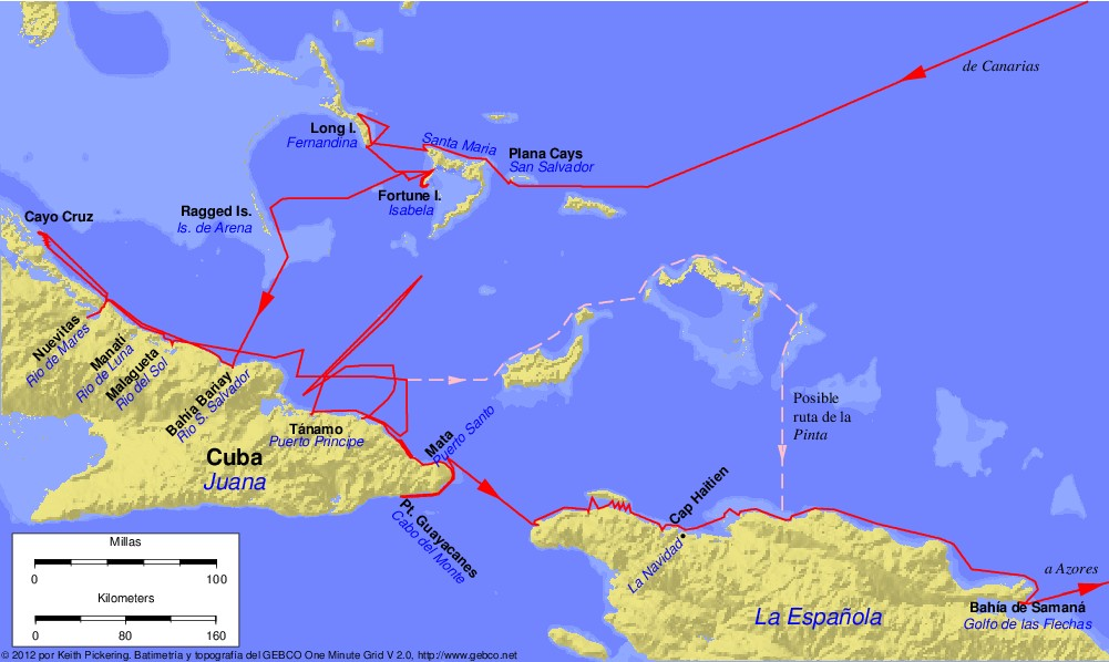 Map of the first voyage of Christopher Columbus, 1492-1493. Modern placenames are in black, Columbus's placenames are in blue.